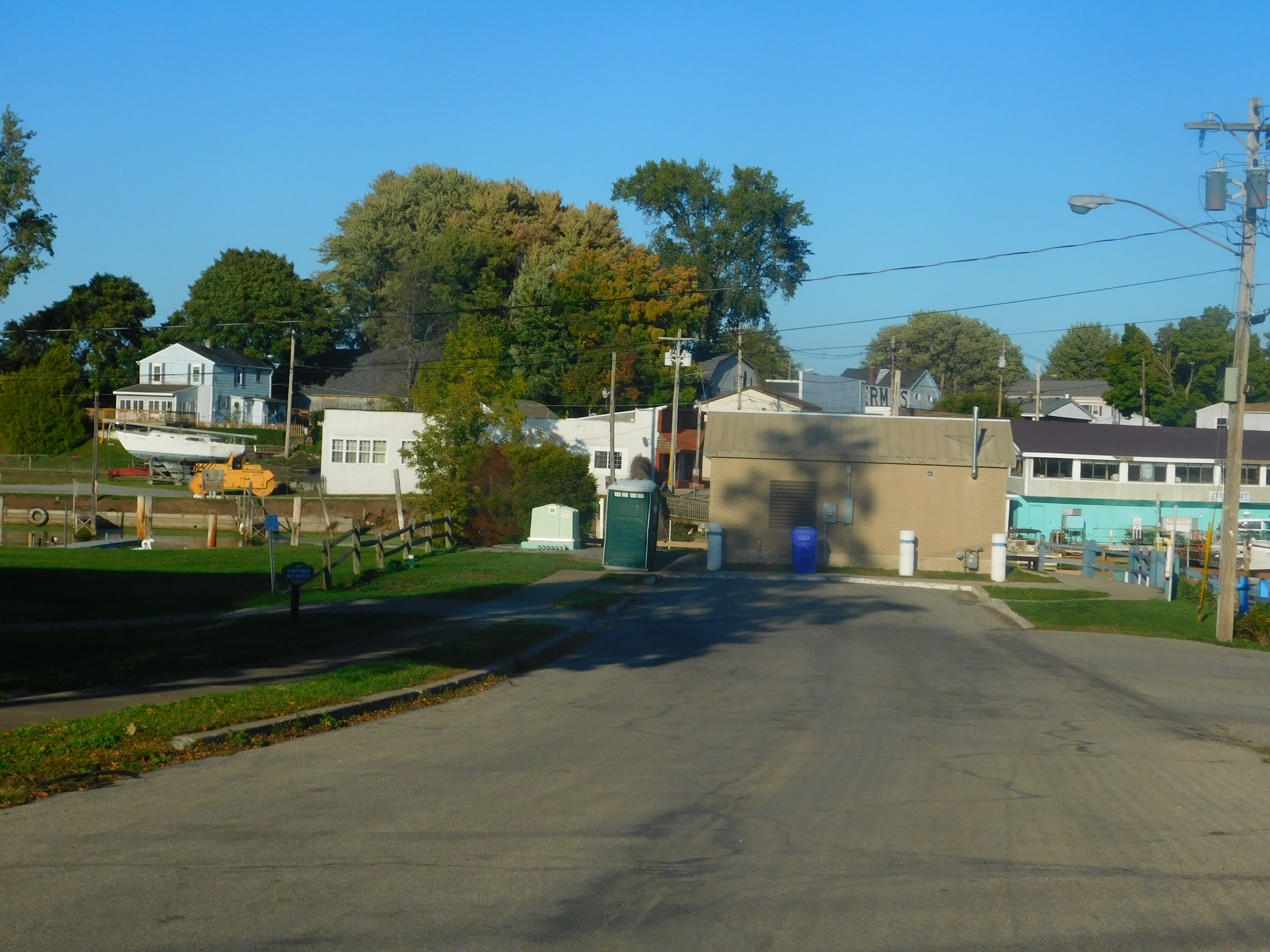 The former alignment of NY 18 in Olcott, New York prior to the bridge built in 1970.